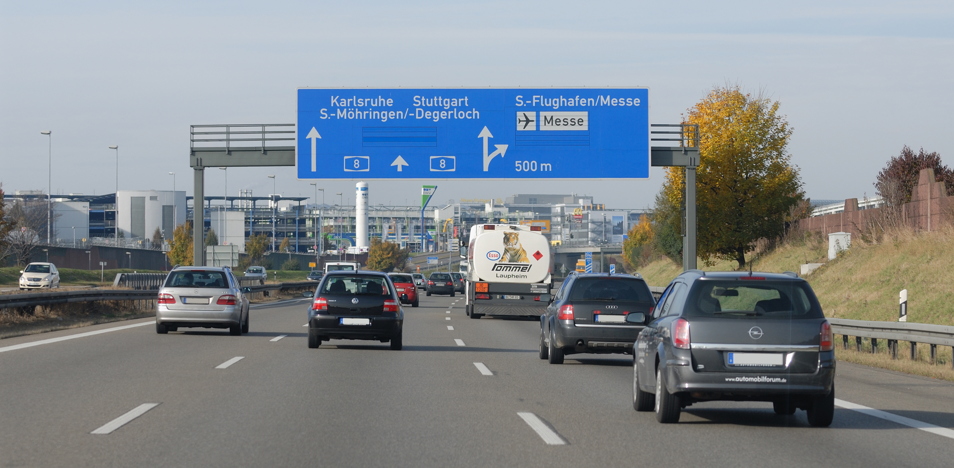 Stuttgart Airport exit of highway A 8. In the background there are various airport buildings.